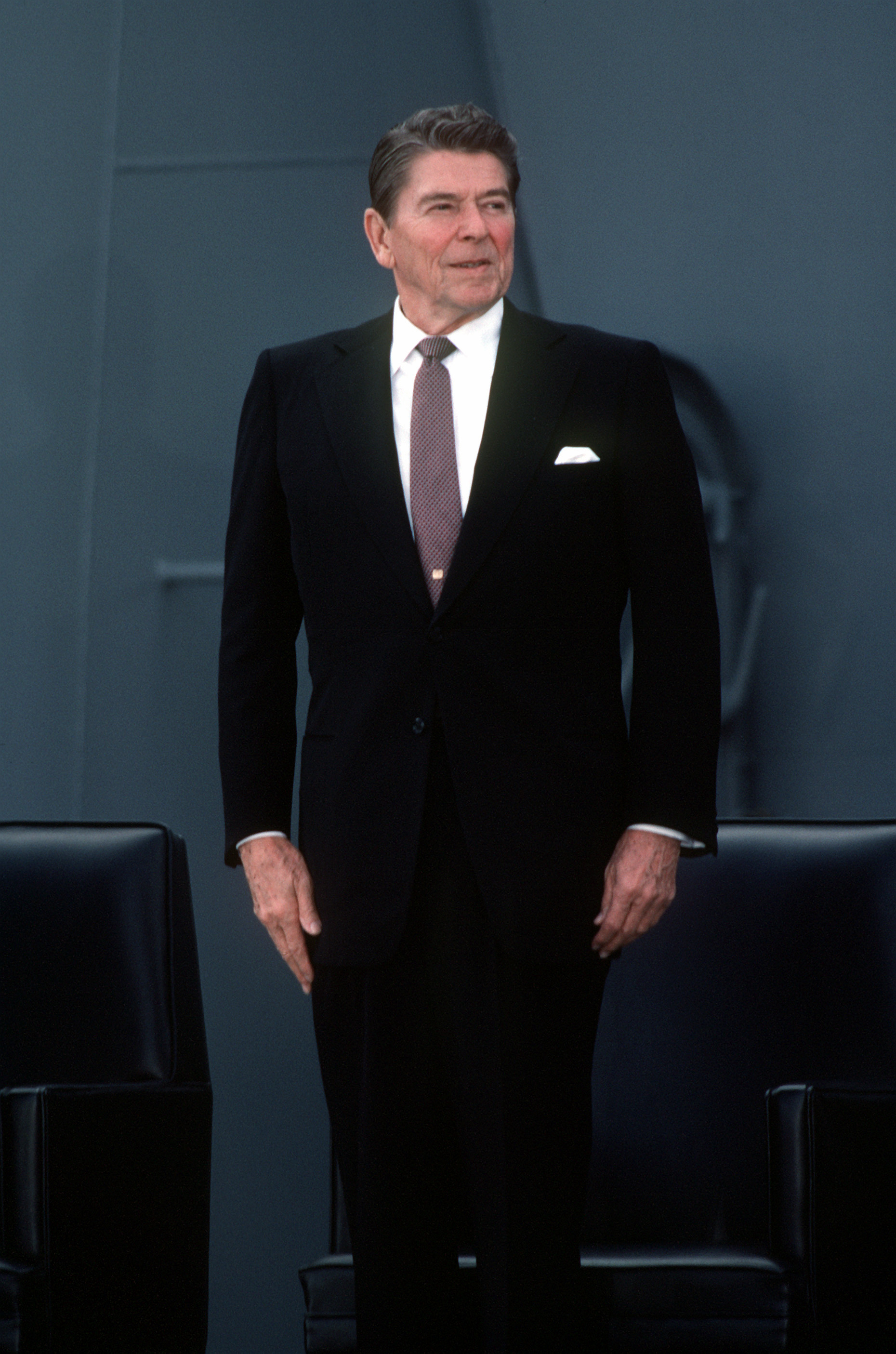 Ronald Reagan stands during the recommissioning ceremony for the battleship USS New Jersey (BB-62). Long Beach Naval Shipyard, California, United States Of America (USA)